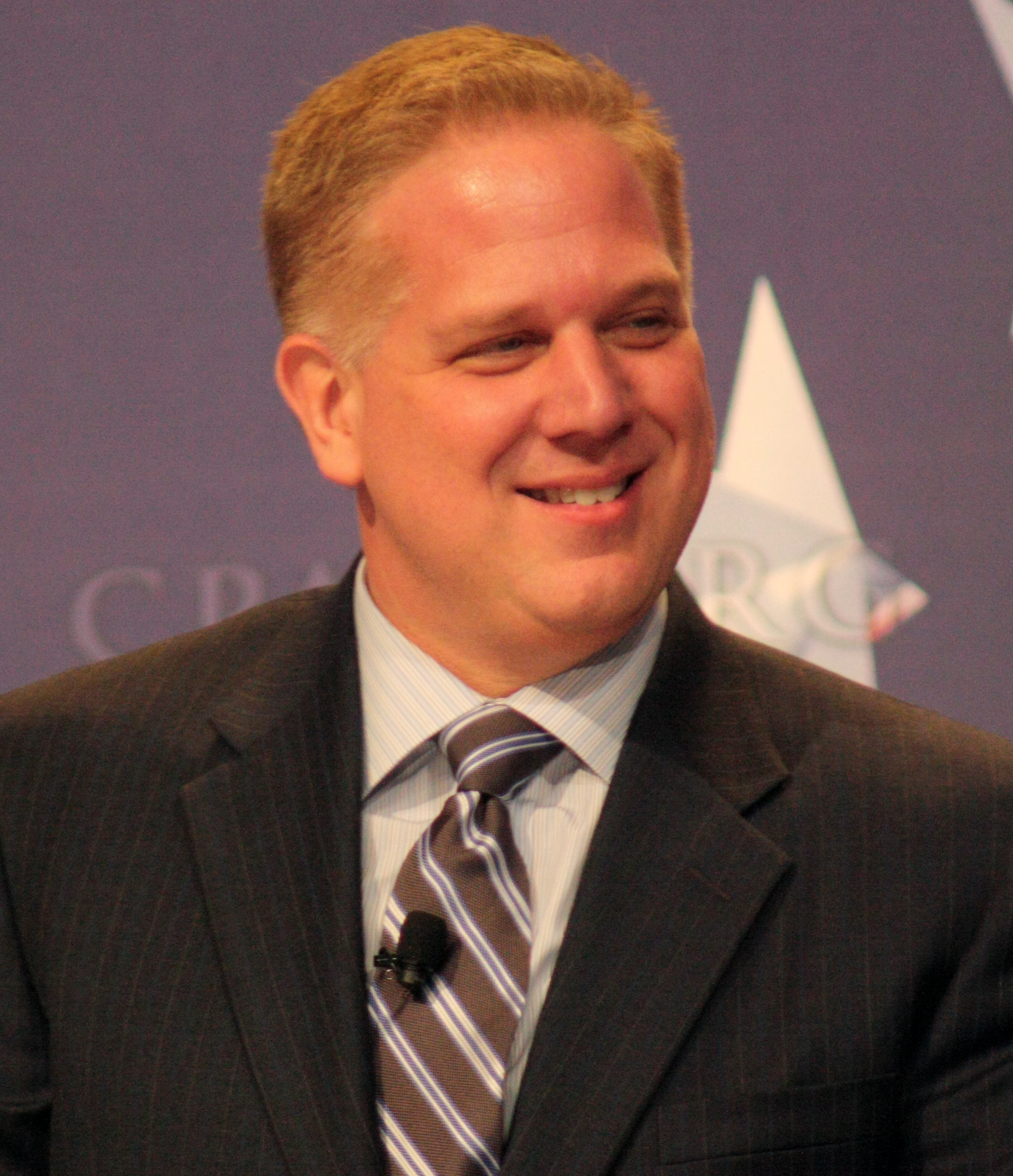 Television and radio host Glenn Beck at CPAC in Washington, D.C..